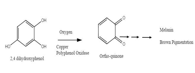 A very general overview of the enzymatic reaction catalyzed by Polyphenol Oxidase on Phenols to produce brown pigmentation.